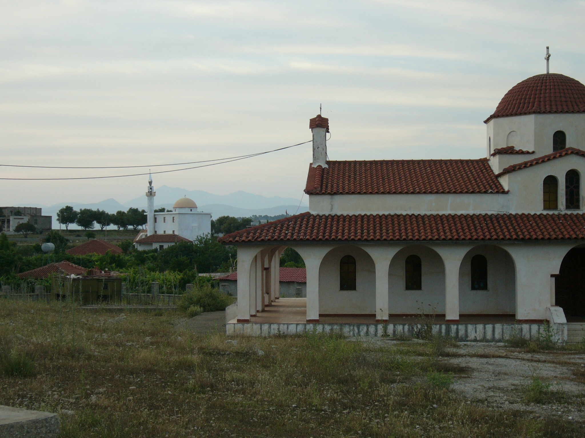 An Orthodox church and a mosque in Southern Albania